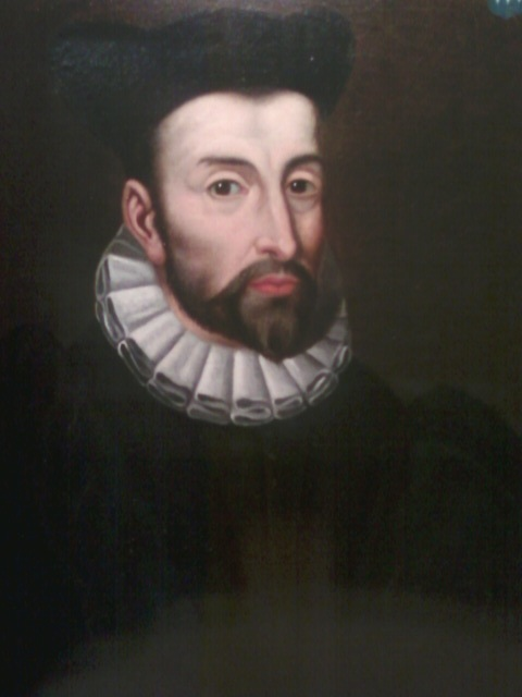 Portrait of Barnabé Buisson young, owner Museum of Fontenay-le-Comte